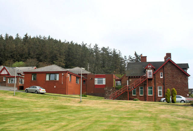 Millport Cottage Hospital Lady Margaret Hospital, Millport